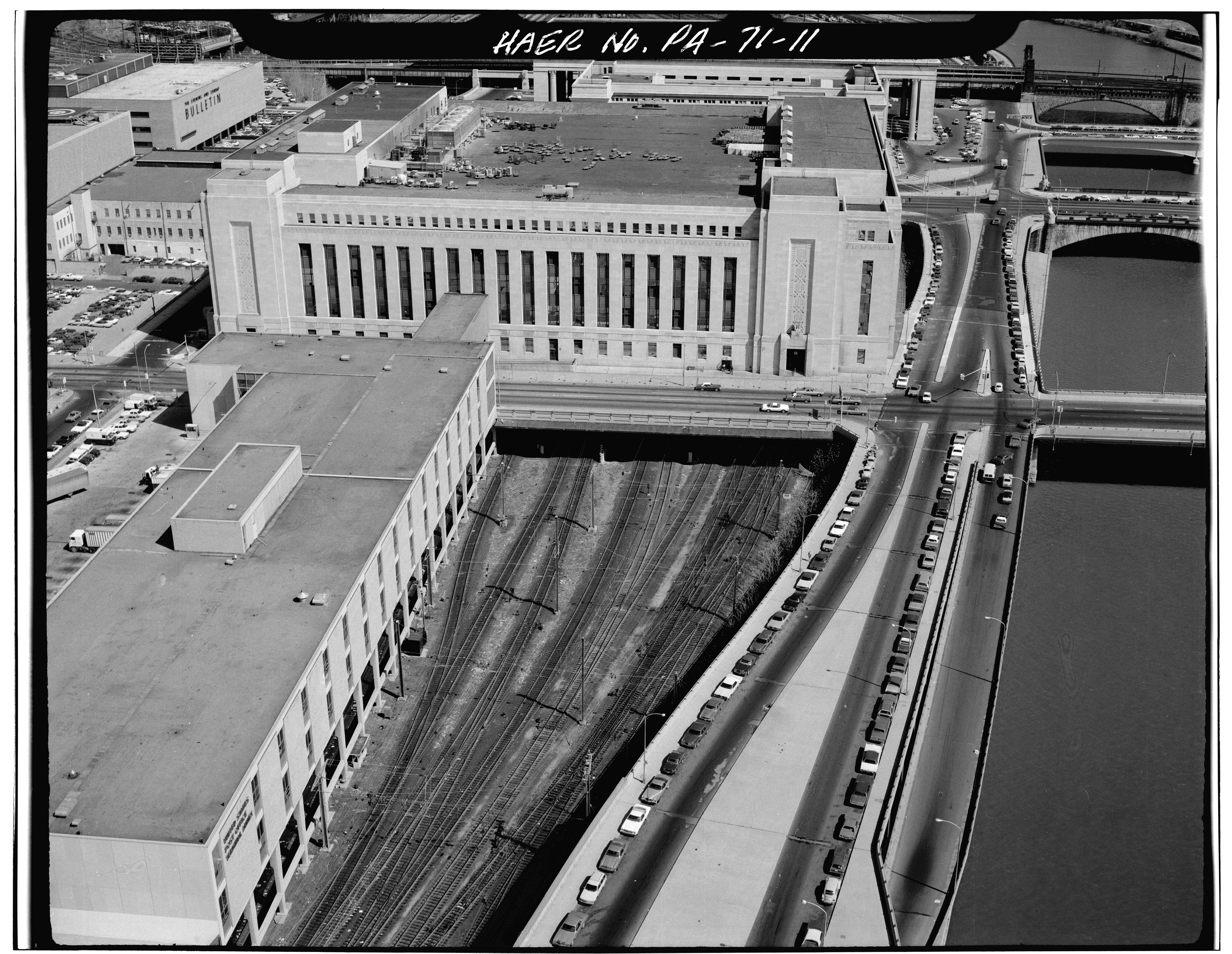 U. S. Postal Service Building, Philadelphia, Pennsylvania.This mail distribution center was erected in 1930 using a style similar to 30th Street Station behind. Both were part of the “Philadelphia Improvements”, an urban-renewal project undertaken by the city and the Pennsylvania Railroad during the late 1920s. The building covers almost the whole southern track field.The roadway right next to the river is one of the ramps leading up from the Schuylkill Expressway to the street level.